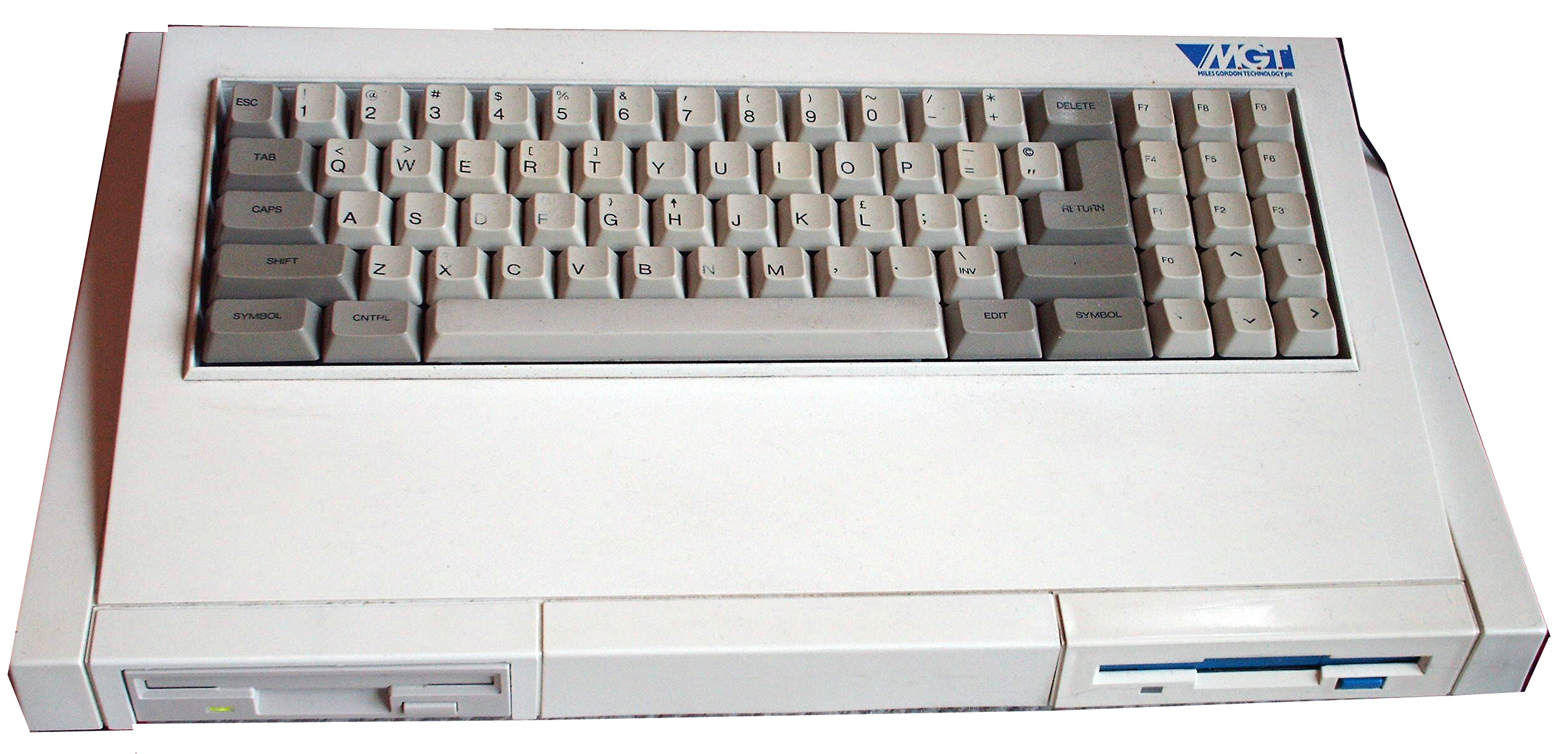 Sam Coupe home computer. Taken by C Ford, 25th Dec 05. The front left disk drive is not original. Also note that the "SAM Coupé" logo has been worn off, and that several of the keys are badly worn.